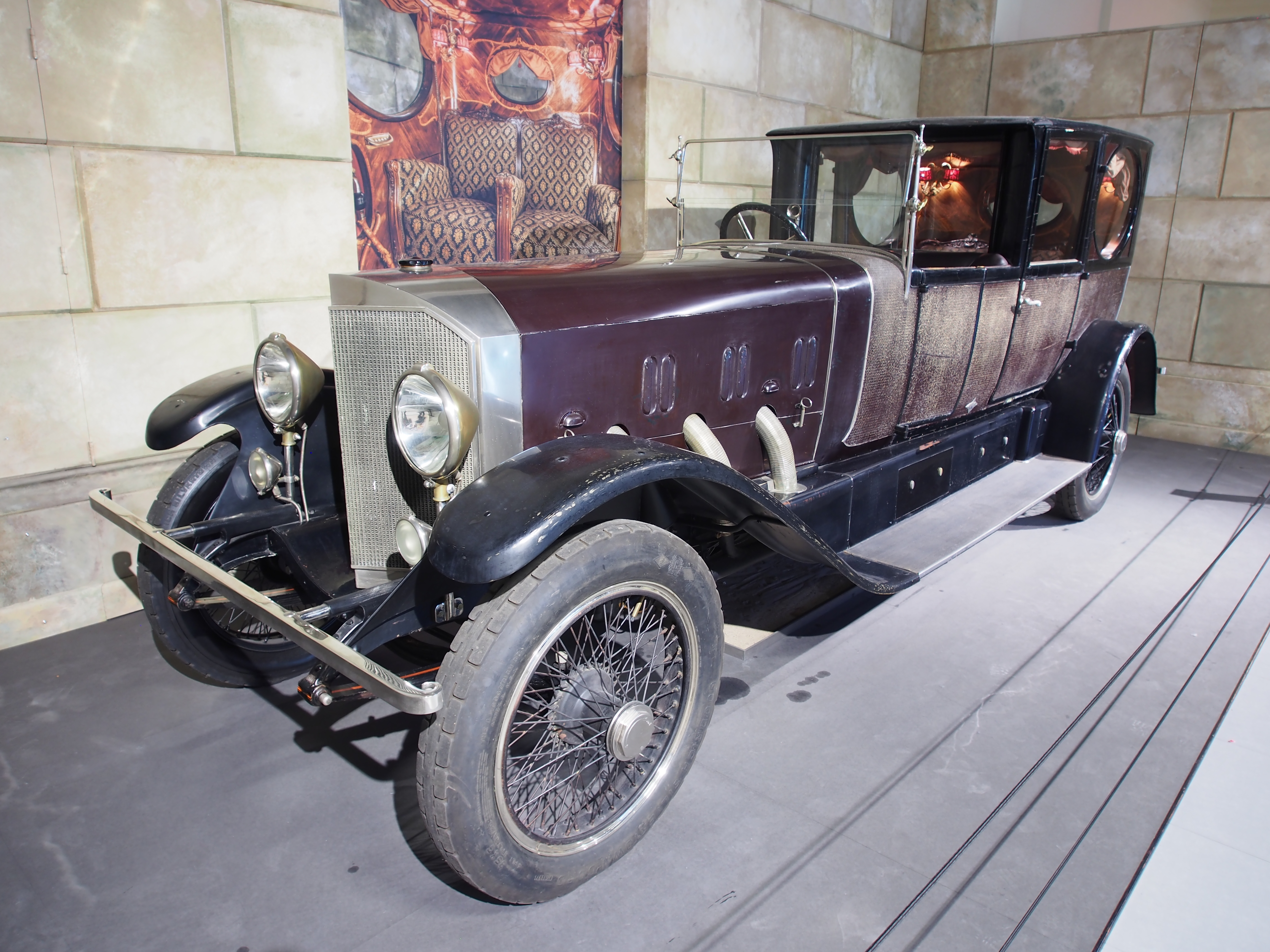 1922 Joswin Town Car in the Louwman Museum.